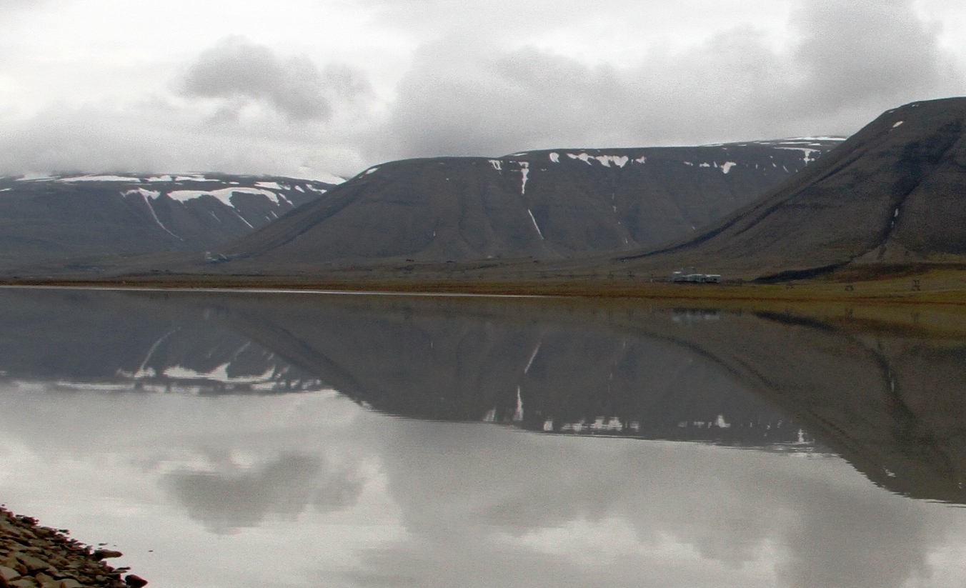 Image from the Adventdalen valley, across the Isdammen lake - Spitsbergen.